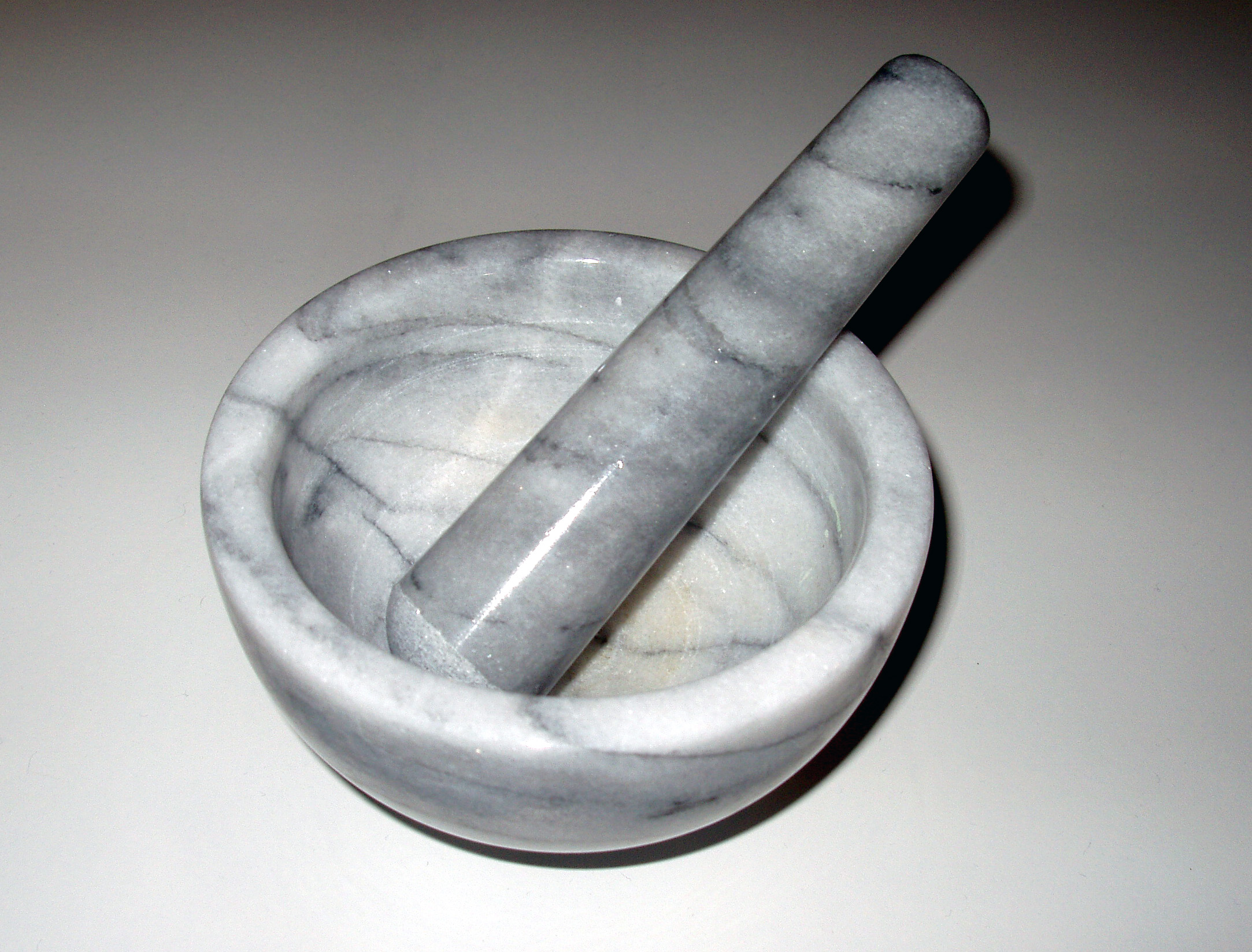 A marble mortar and pestle.